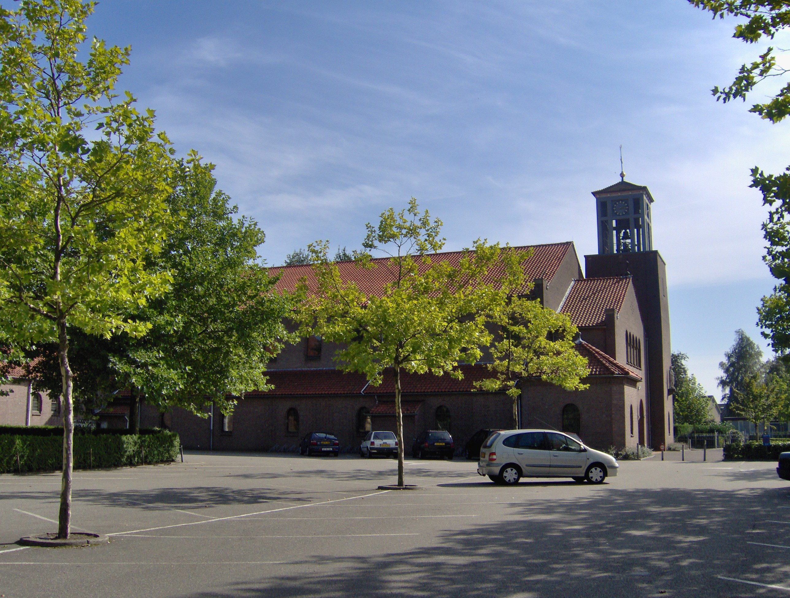 The church Sint Pancratius (Saint Pancras) in Albergen, municipality of Tubbergen, The Netherlands